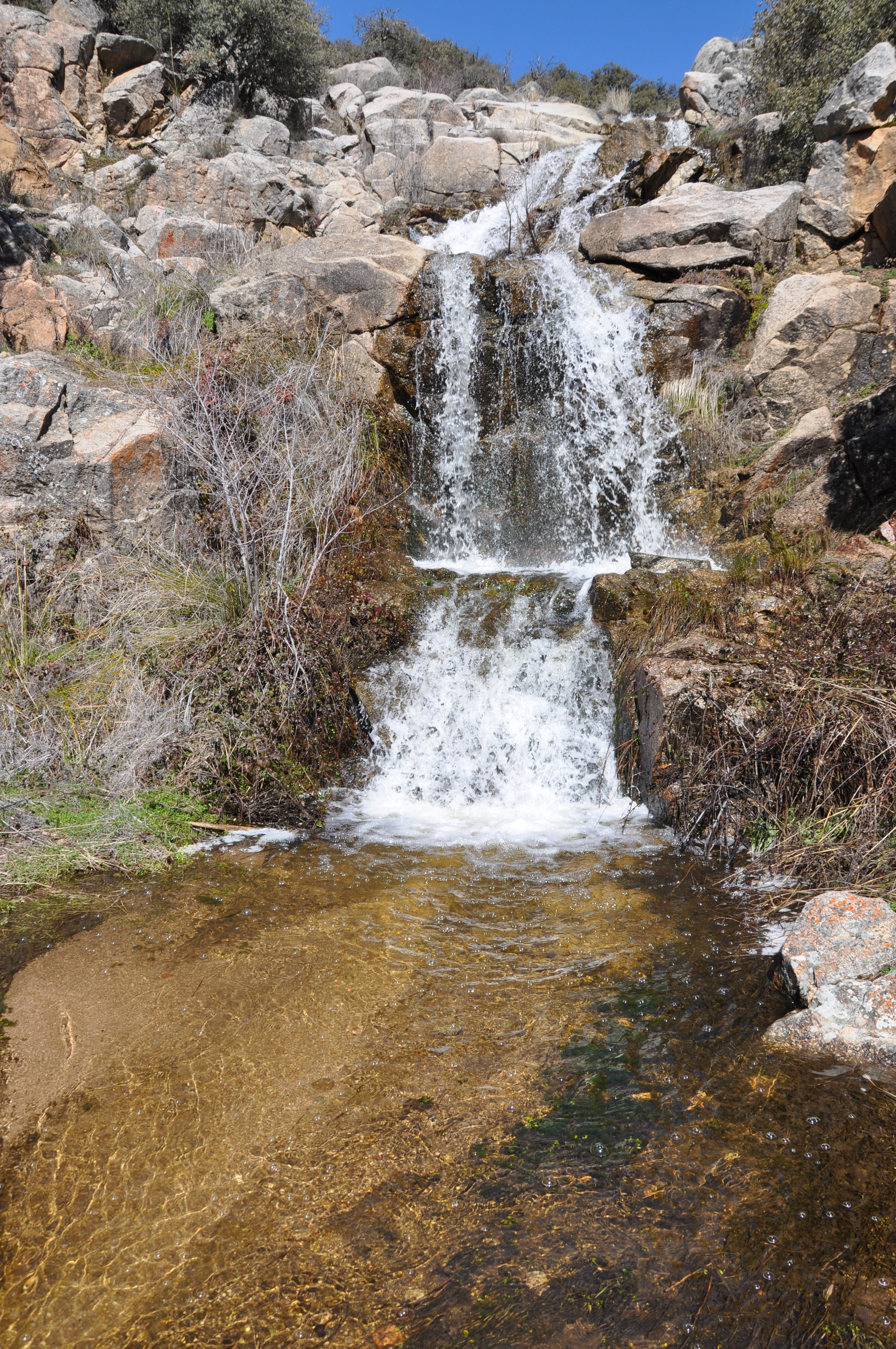 Chorreras the Rubiales stream in Guareña, Avila, Spain